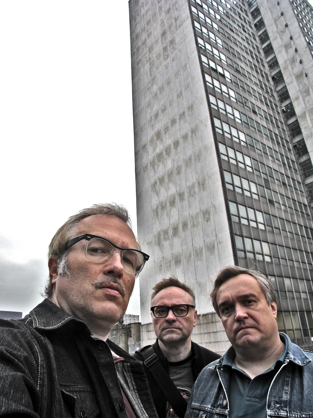 members of łyżka czyli chilli